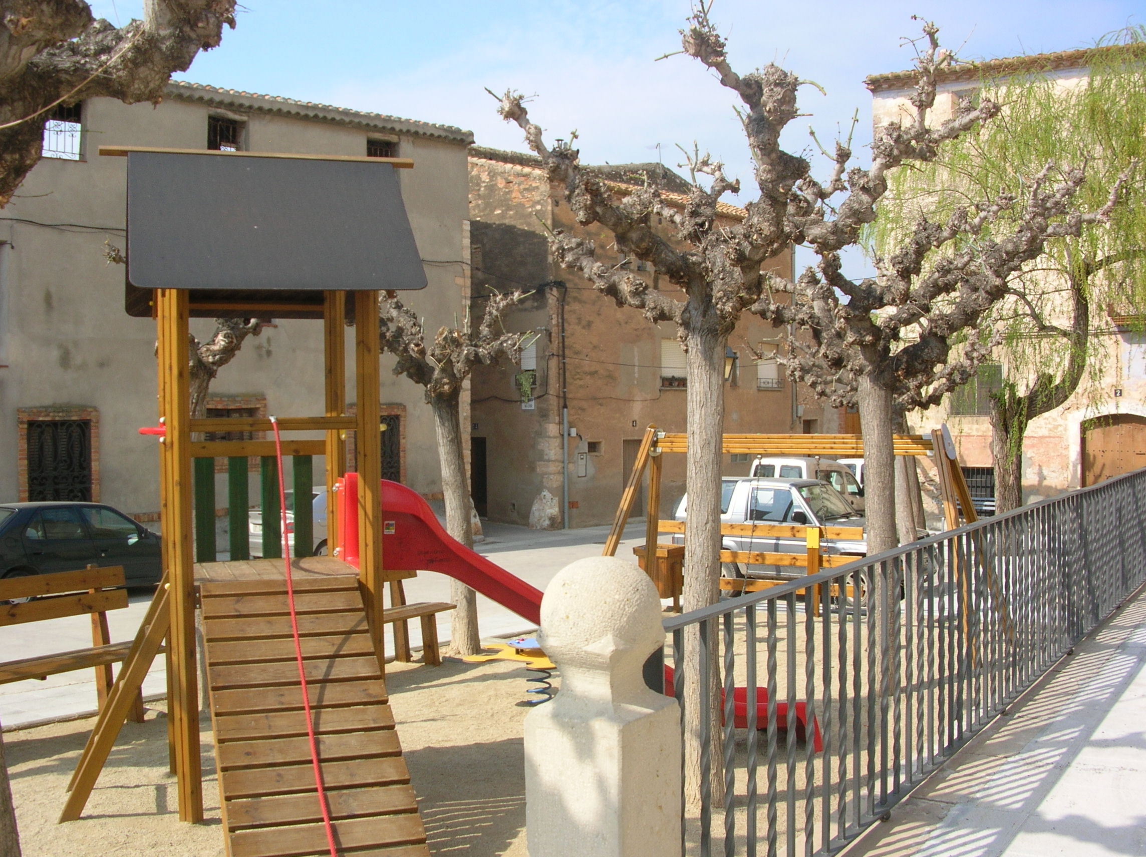 church square of Alió, Catalonia.